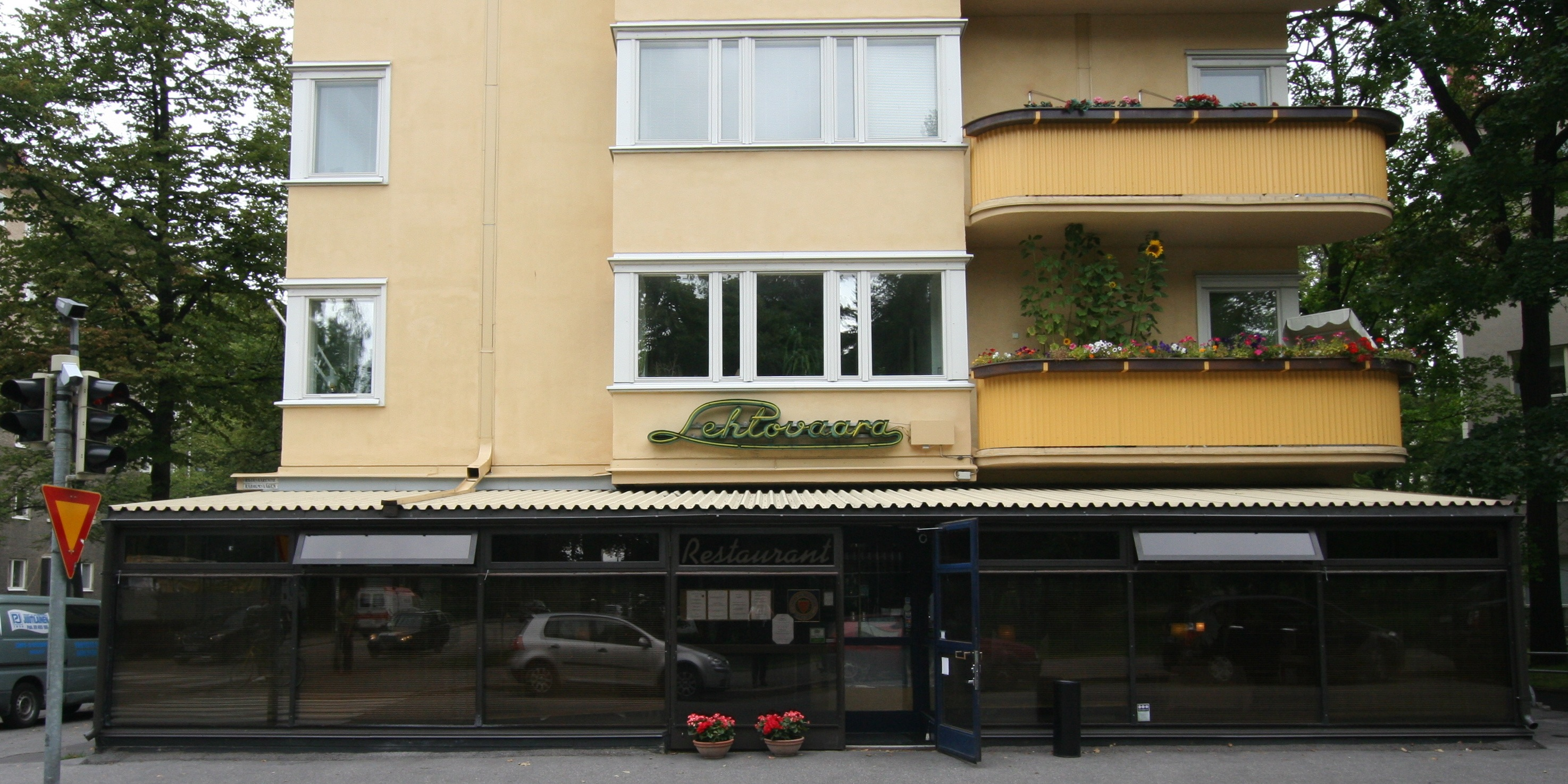 Restaurant Lehtovaara in Helsinki, Finland